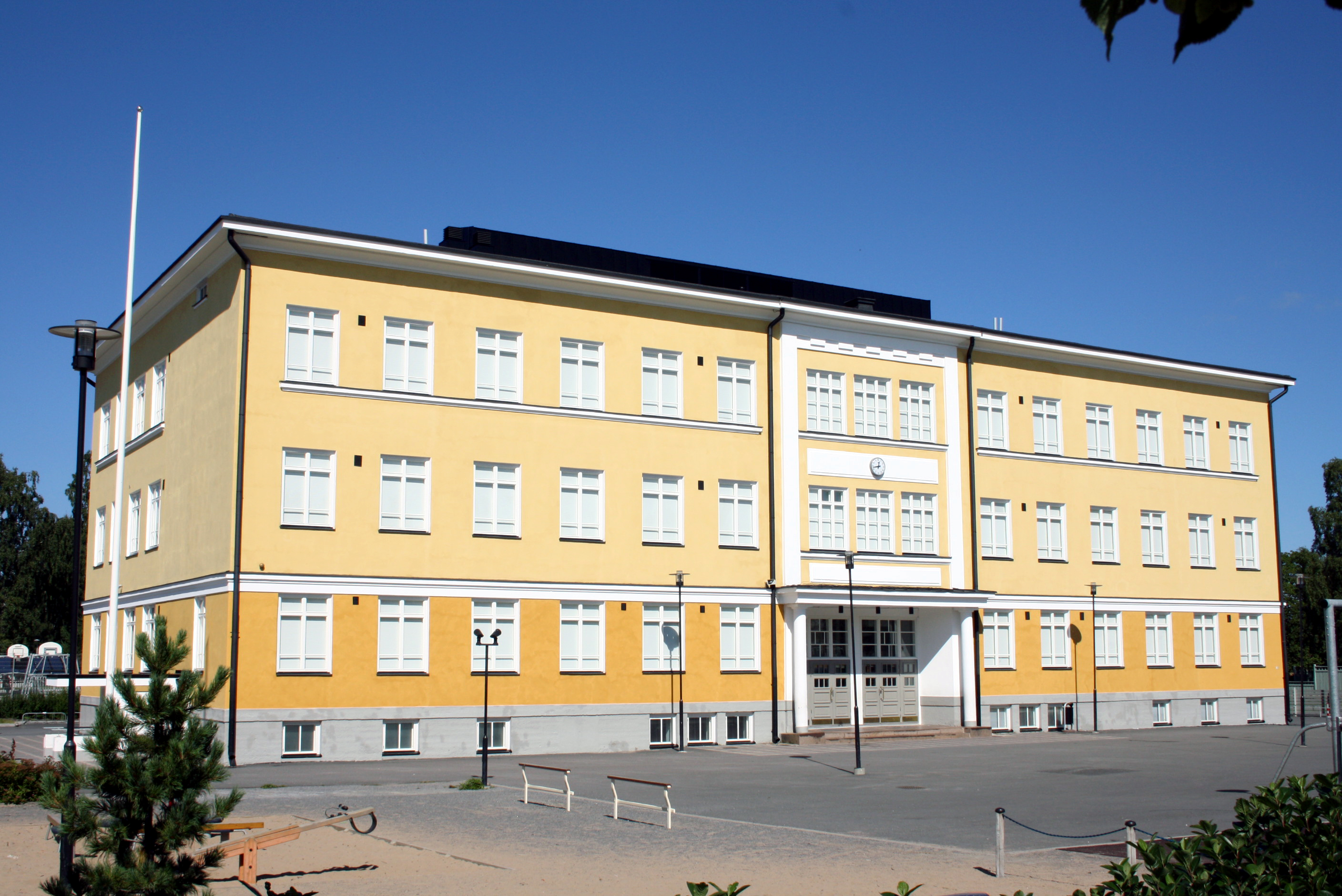 Mäntykangas elementary school in Kokkola, Finland